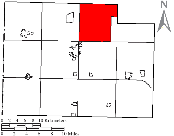 Made by the US Census and modified by myself